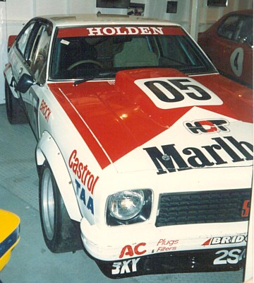 Bathurst 1000 winning Holden Torana in Bathurst museum